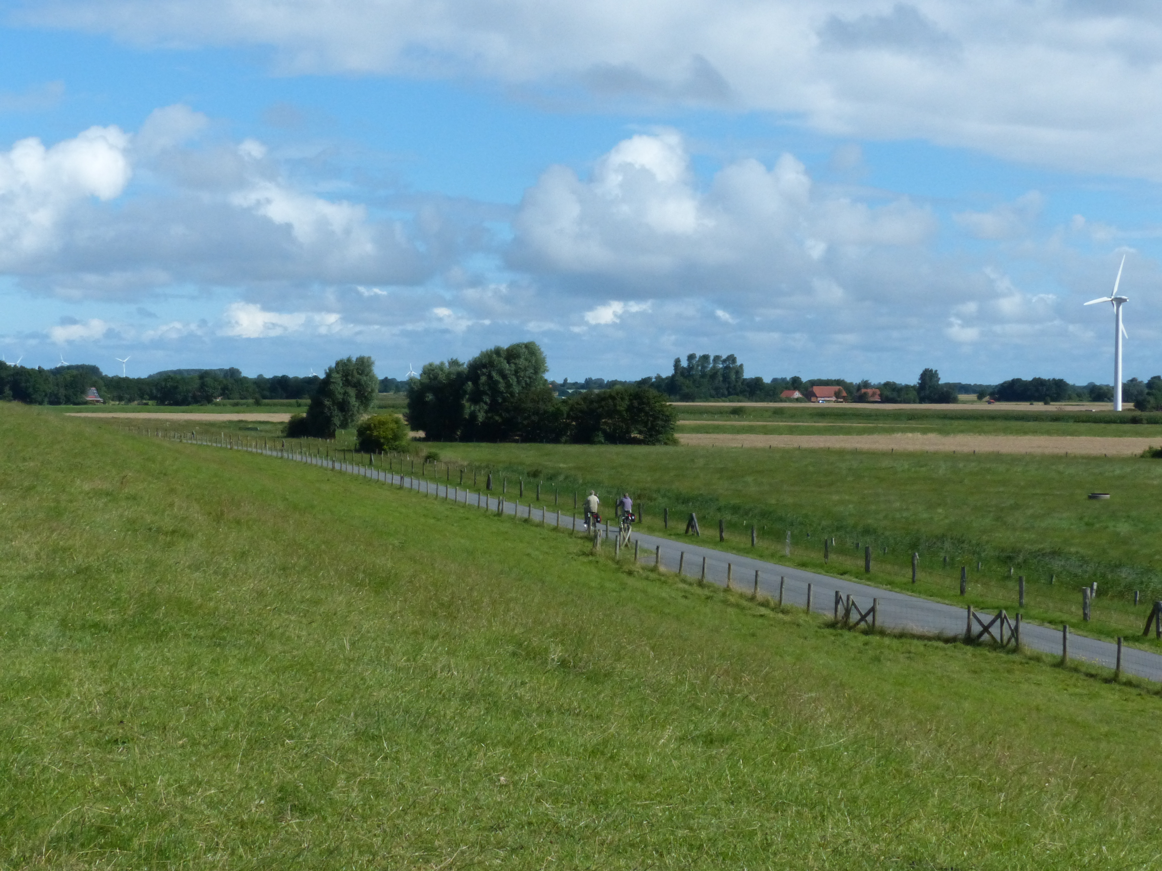 Norderland, seen from the eastern dike of Leybucht.